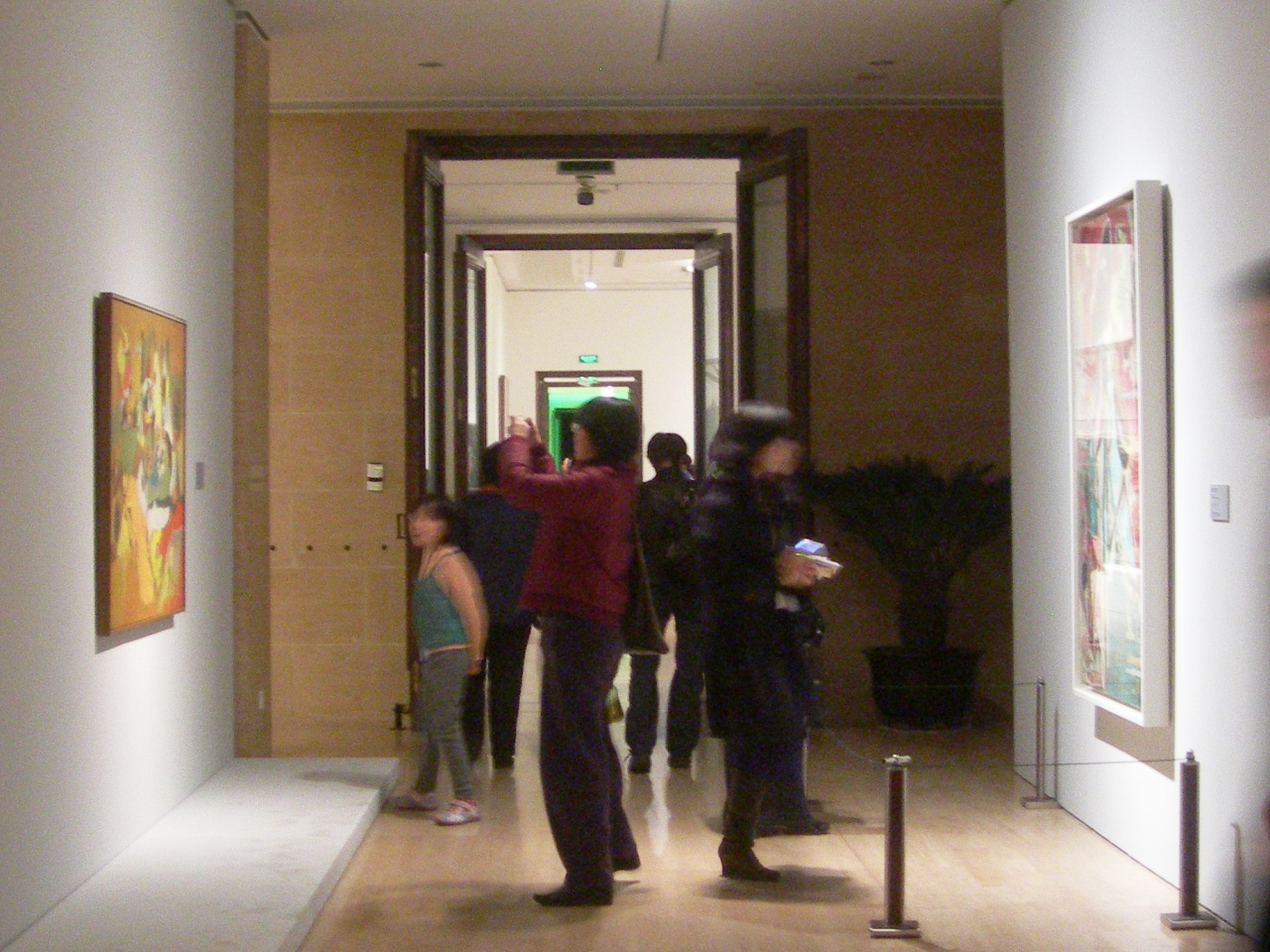 Art displays at the National Art Museum of China